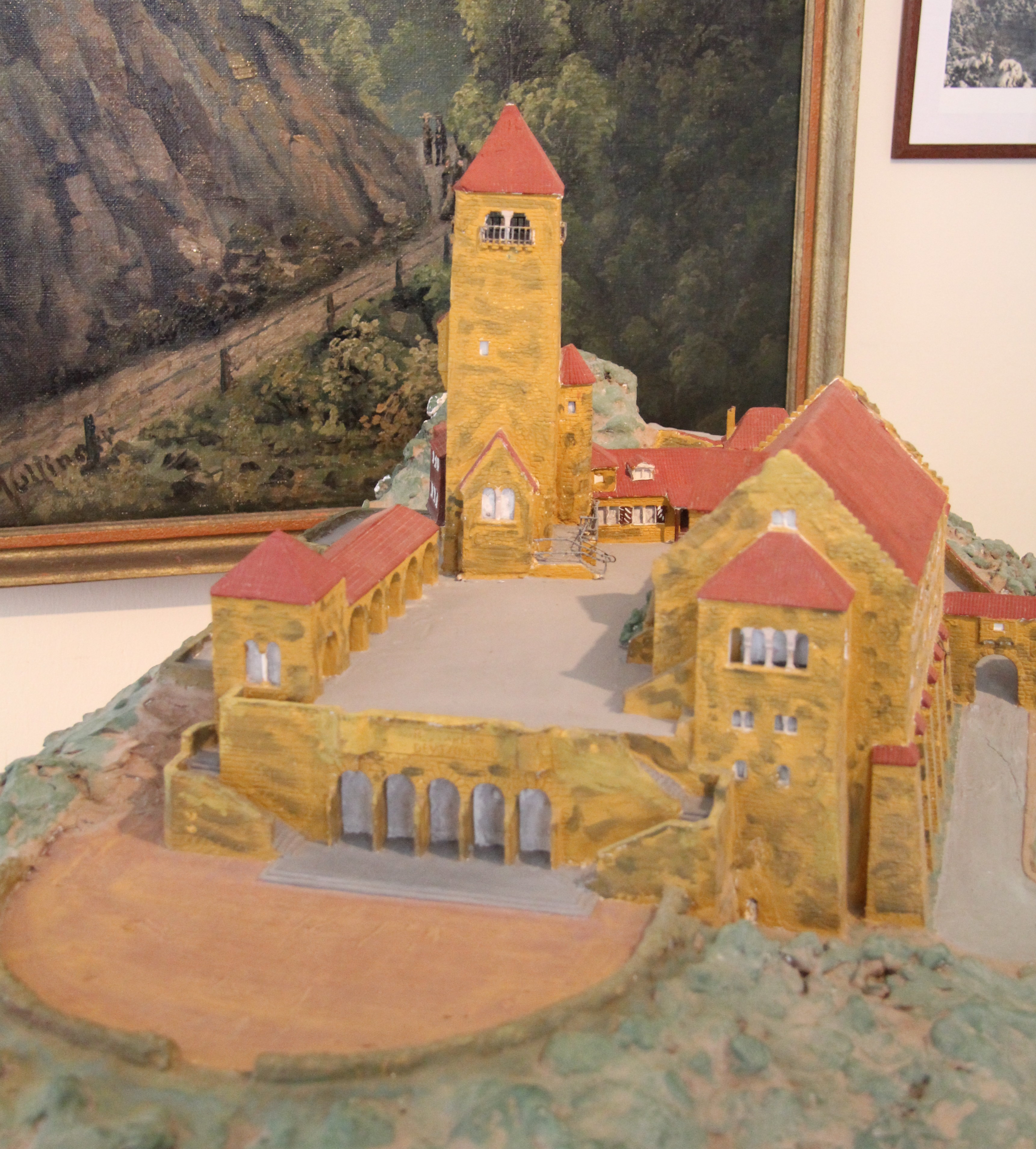 Model of Wachenburg Castle in the Municipal Museum of Weinheim, State of Baden-Württemberg, Germany